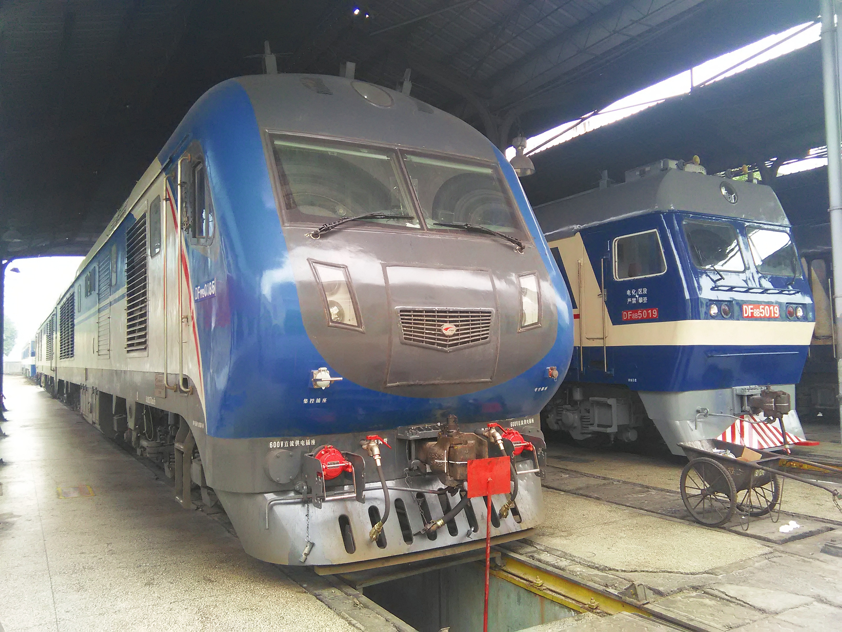 China Railways DF11G 0186&0185 in Liuzhou Locomotive Depot.